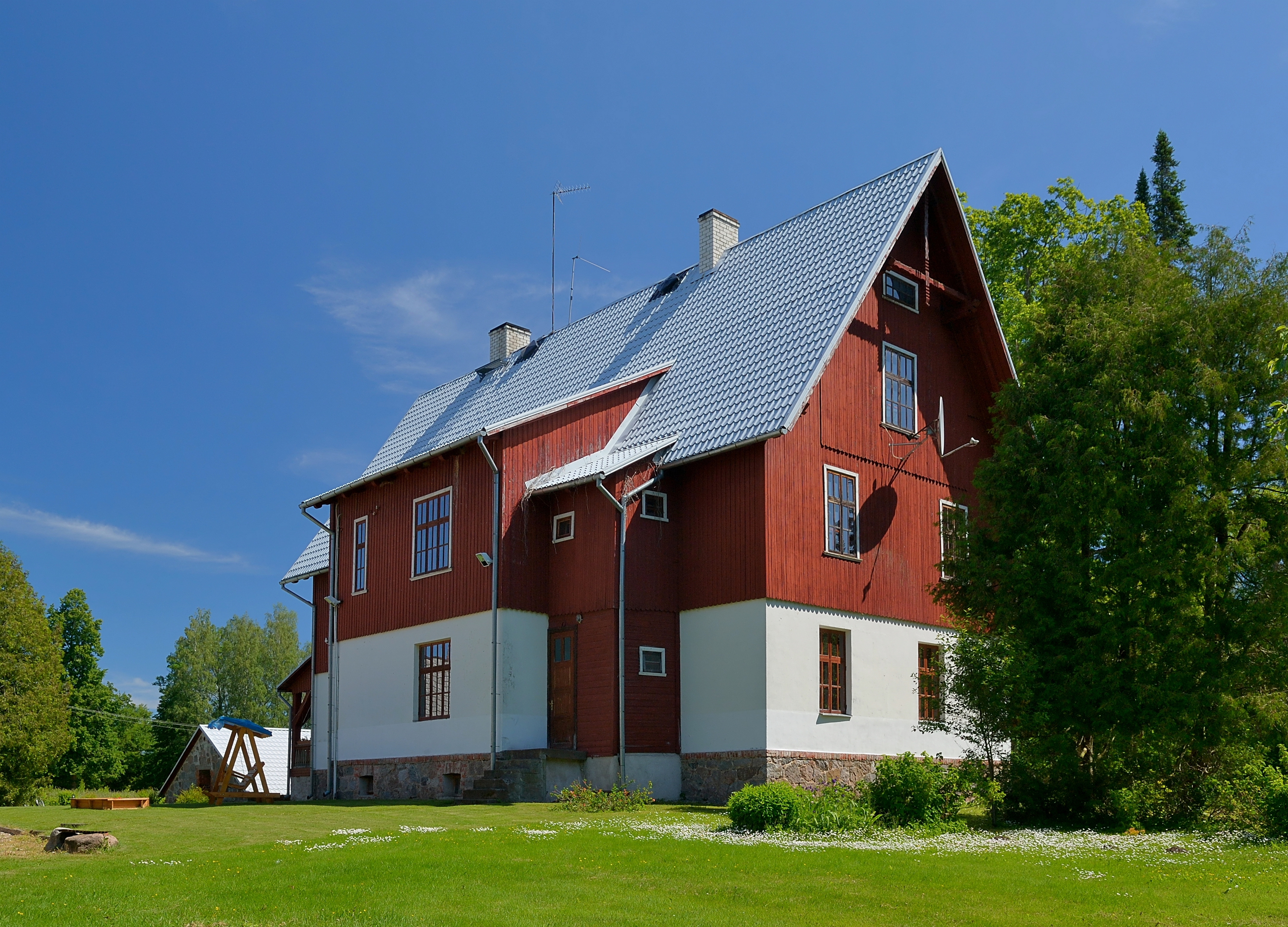 Saburi (Rupsi) huntingmanor